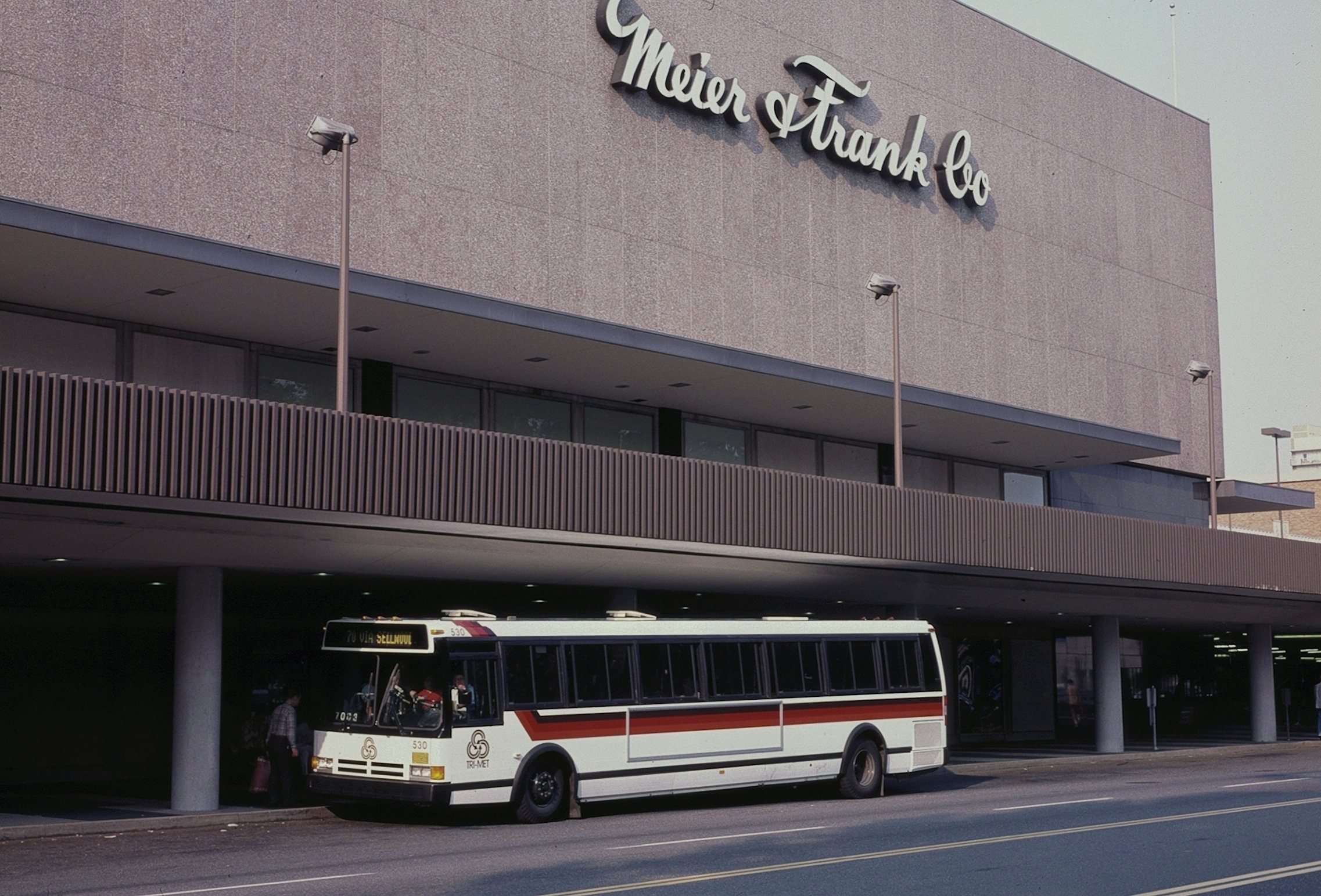 The former Meier & Frank store (changed to Macy's in 2006) at Lloyd Center mall, in Portland, Oregon. This photo shows the N.E. Holladay Street side, near 11th Avenue, with a Tri-Met (now TriMet) bus on route 70 at the bus stop there. The bus, No. 530, was a 1988 Flxible Metro, and this was the first day of service for that type of Tri-Met bus (initial series 500–549).